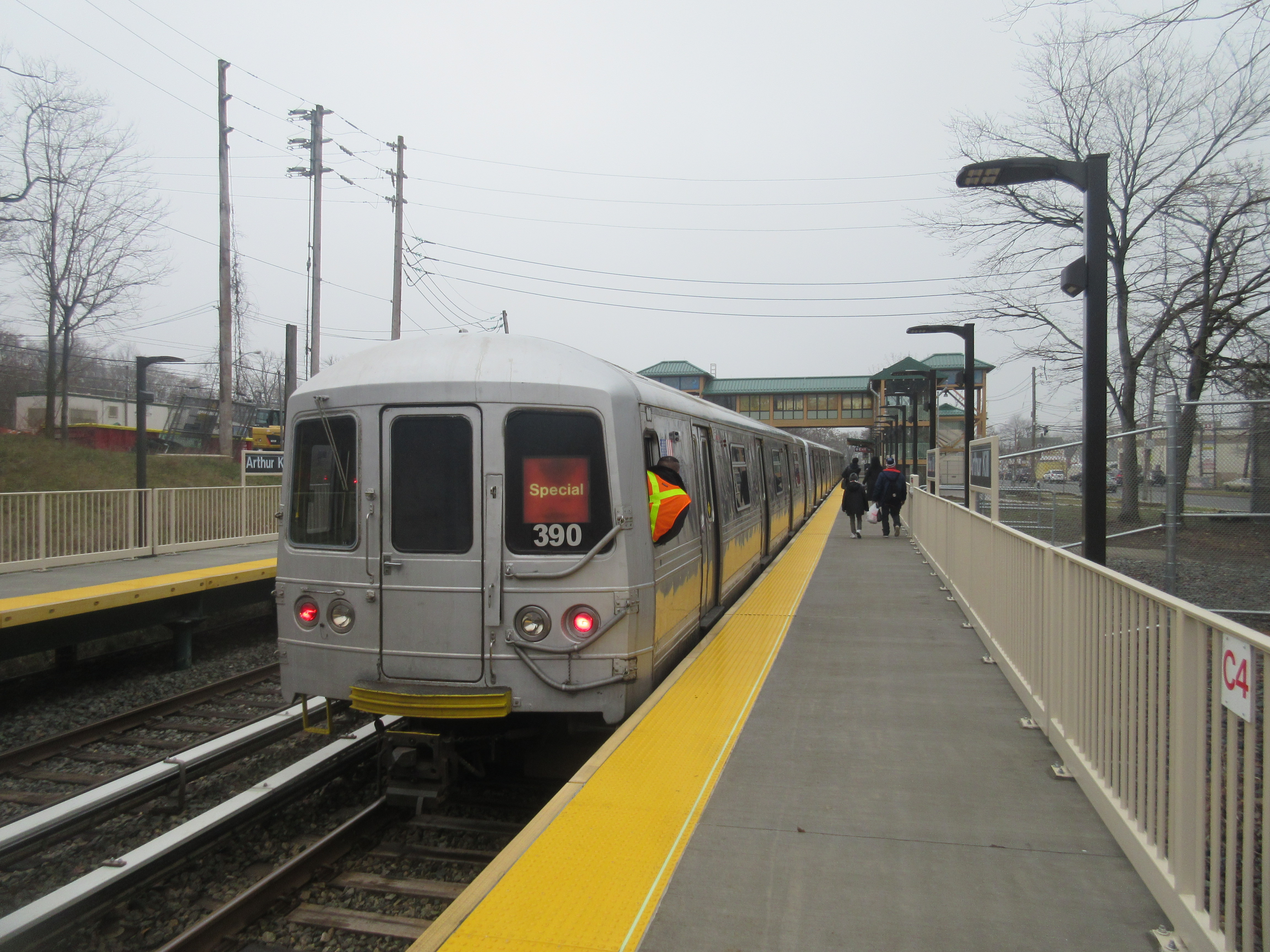 This is an R44 at Arthur Kill on January 22, 2017, the day after the station's opening. This was taken from the northern end of the southbound platform.